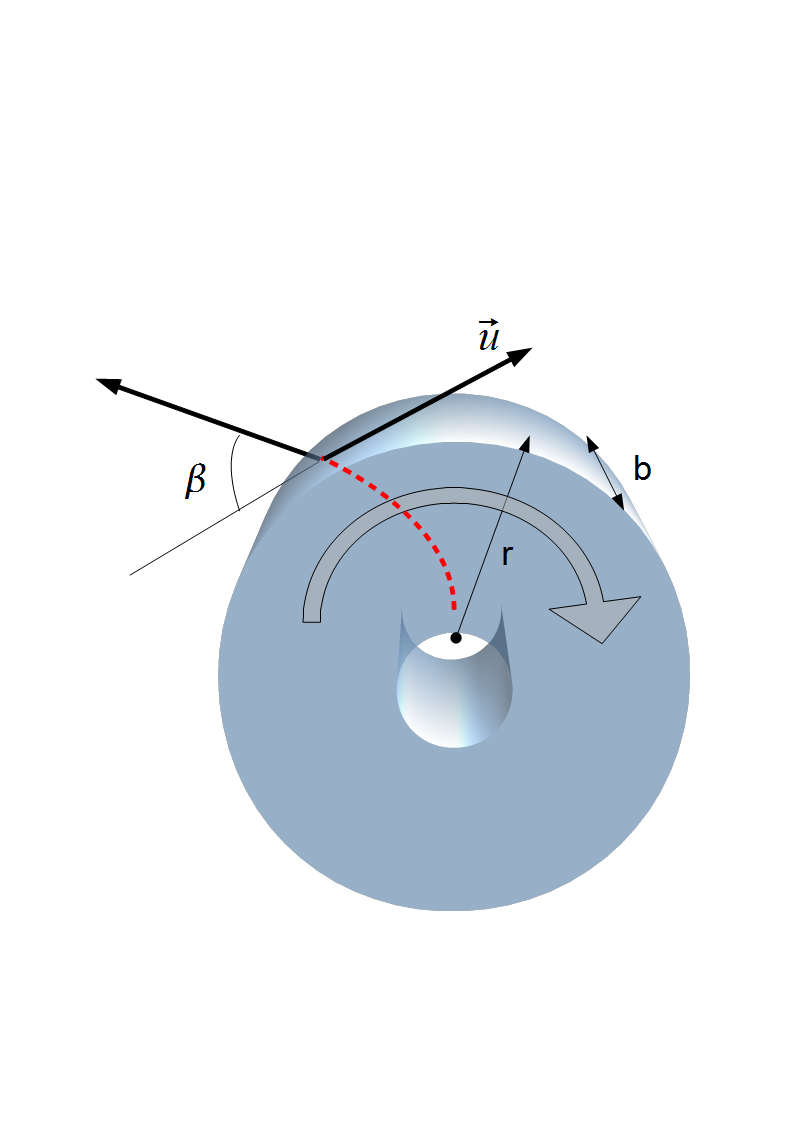 Schema, impeller of a centrifugalpump